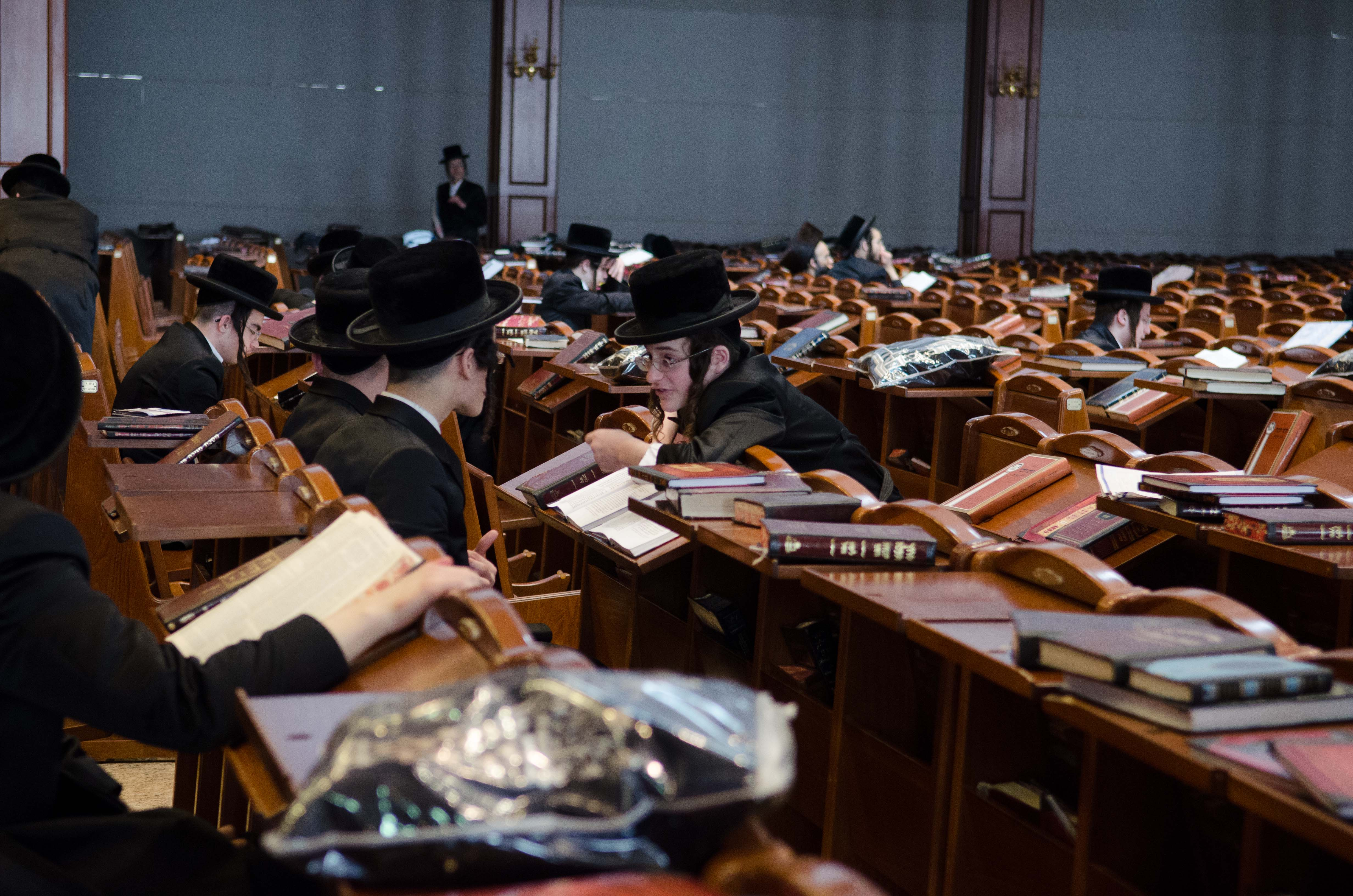 Kiryat Belz, Religion in Israel